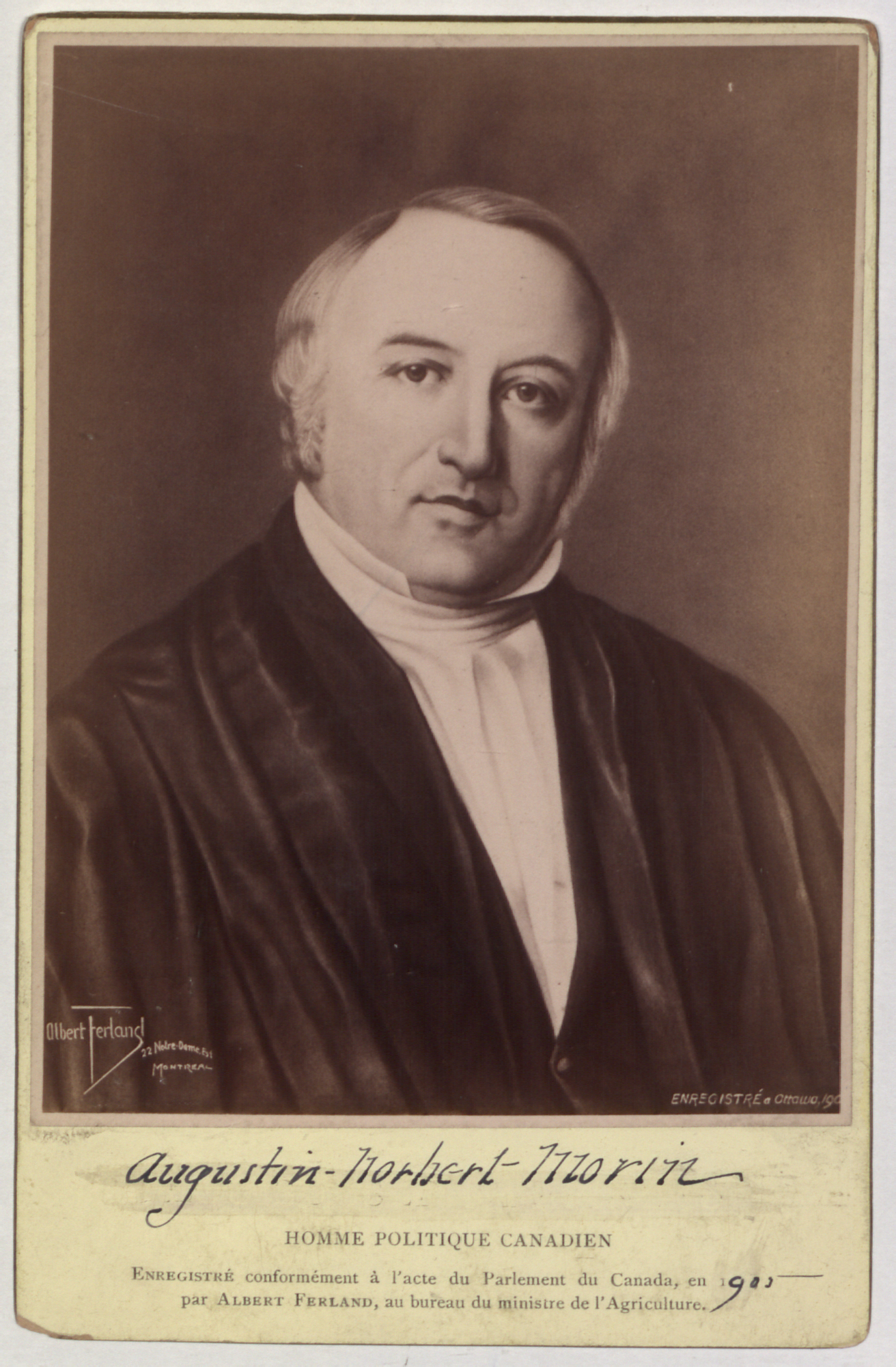 Augustin Norbert Morin.